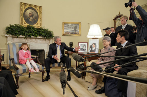 President George W. Bush addresses the press during a meeting, in the Oval Office Friday, April 28, 2006, with a family of North Korean defectors and family members of Japanese citizens who were abducted by the North Korean government. Kim Han-Mee, the daughter of North Korean defectors, sat next to the President. White House photo by Paul Morse